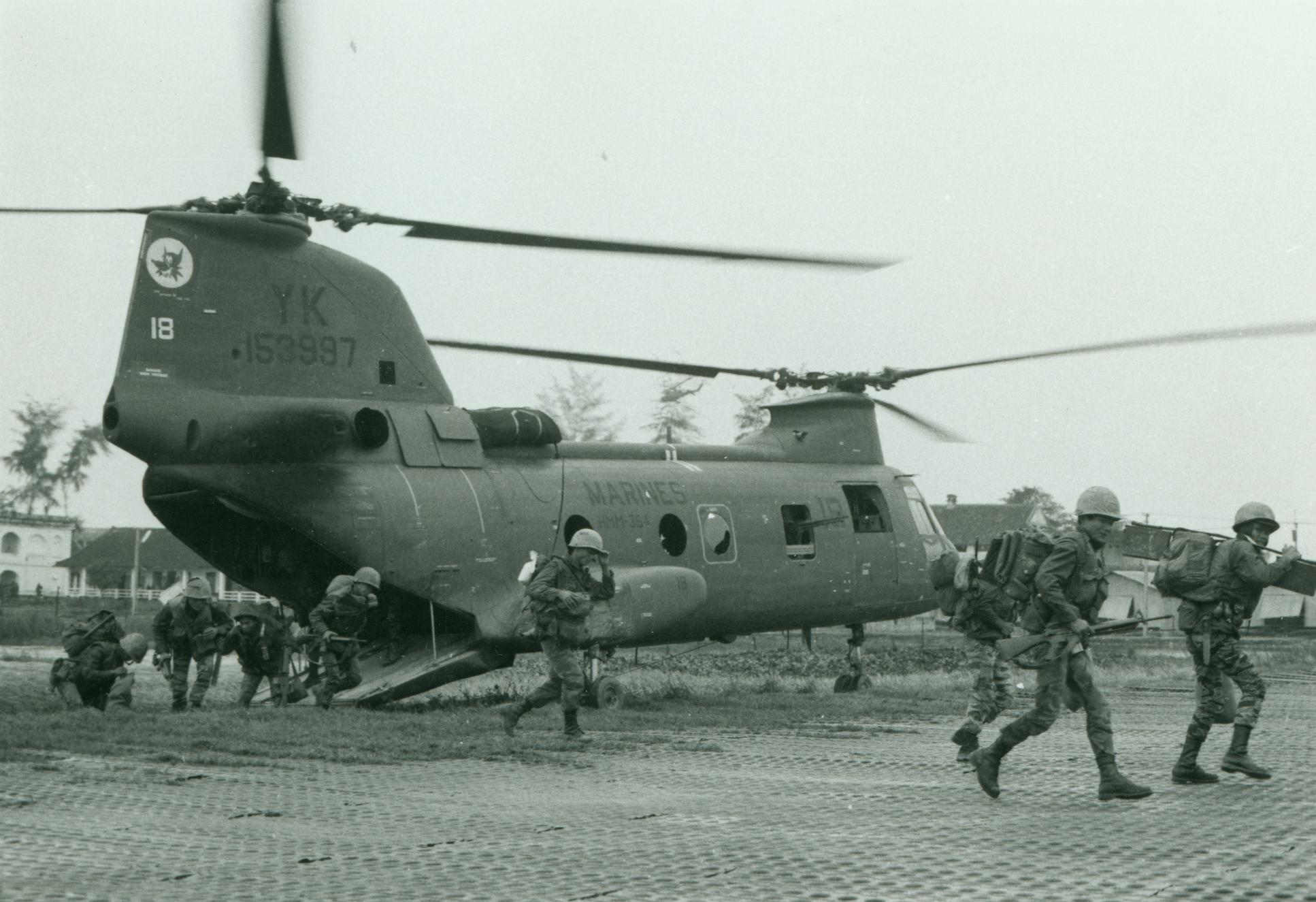 "Fresh Troops: A Marine Aircraft Group 36 [MAG-36] helicopter drops off a unit of Vietnamese Marines in the city of Hue to reinforce ground elements already engaged in the battle for control of the city. MAG-36 choppers have been flying emergency medical evacuations, resupply and troop lifts into Hue since late January (official USMC photo by Staff Sergeant W. F. Schrider)." From the Jonathan Abel Collection (COLL/3611), Marine Corps Archives & Special Collections. OFFICIAL USMC PHOTOGRAPH